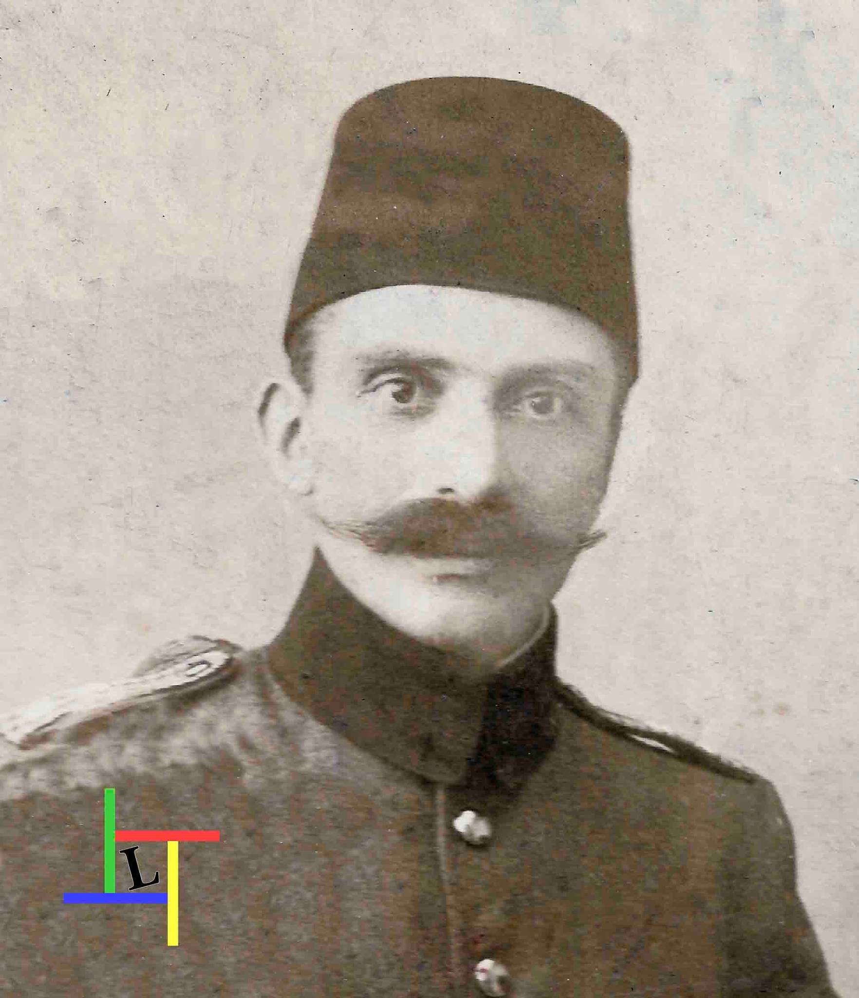 აჰმედ კავაზიში